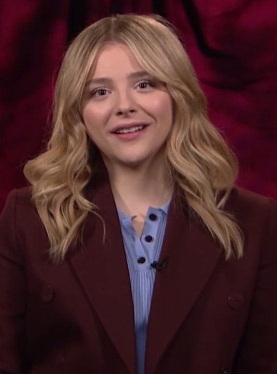 SIDEWALKS host Lori Rosales interviews returning guest Chloë Grace Moretz about being an actress in her teens, does she remember her fighting skills during the "Kick-Ass" films, would she be up to doing sequels to "If I Stay" and "The 5th Wave," and working with director Neil Jordan on the film, "Greta."